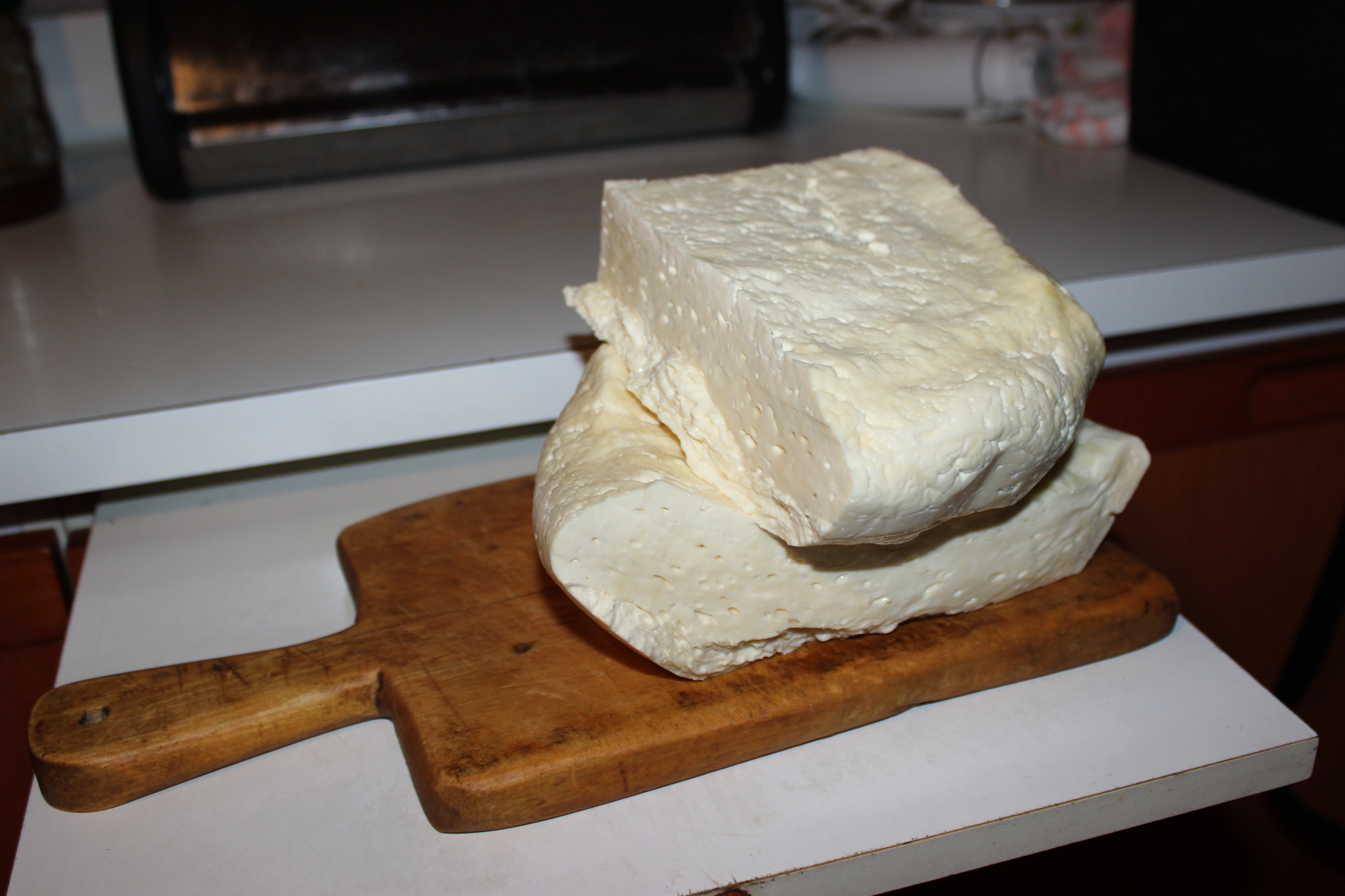 Georgian, Imerian Cheese